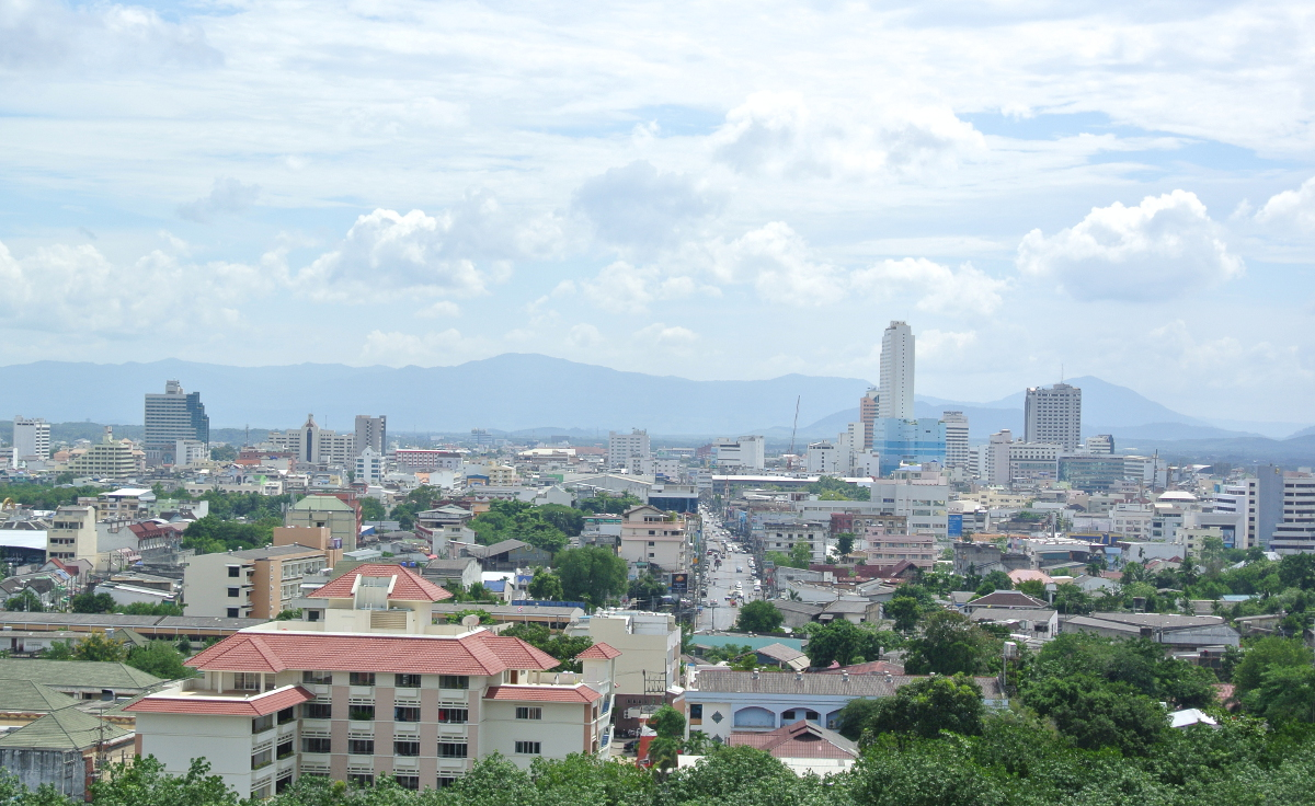 Station street view of Hat-Yai Thailand. from Wat Khok Nao pagoda tower.